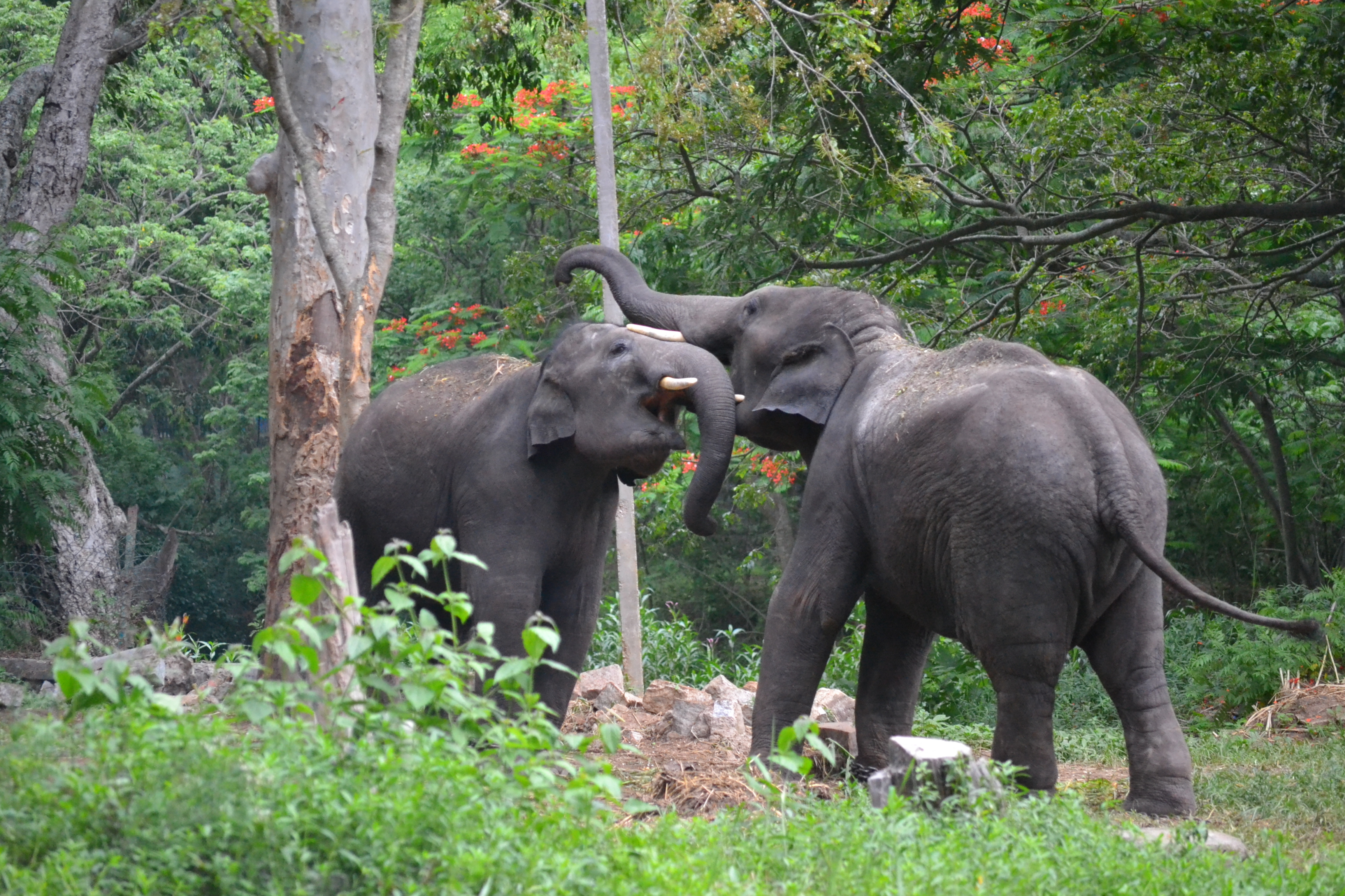 The Indian elephant is one of three recognized subspecies of the Asian elephant and native to mainland Asia